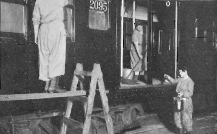 Photograph of an AB Standard subway car being cleaned and painted by women in a BRT shop ca. 1917-1918.